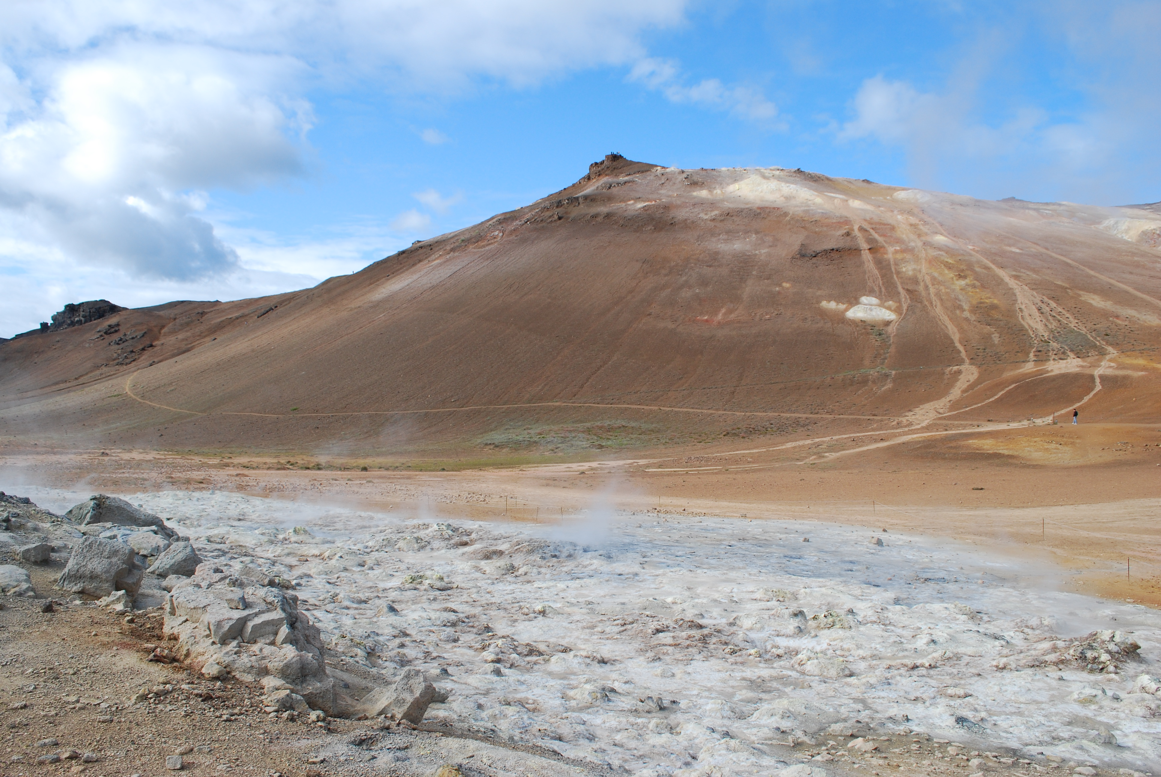 Geothermal area Námafjall near Mývatn Lake, Iceland